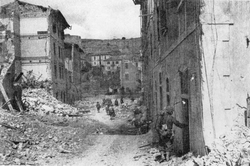 French colonial troops entering Portoferraio, Elba, in June 1944. French troops enter Portoferraio on June 18, 1944.